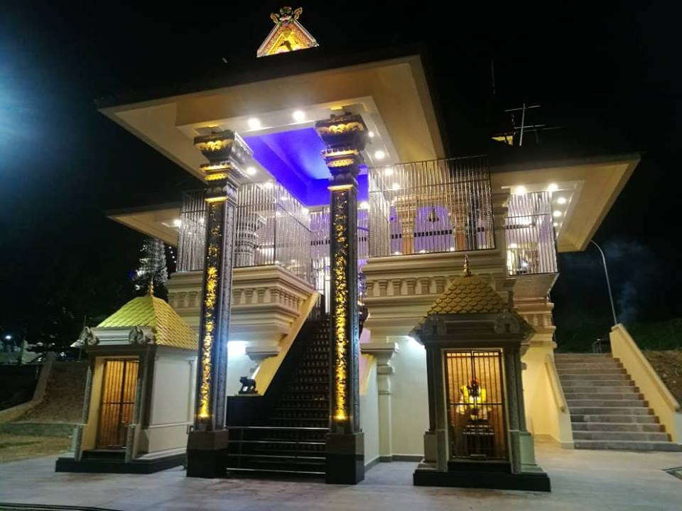 Ayyapan Temple inside Arulmigu Balathandayuthapani Temple complex